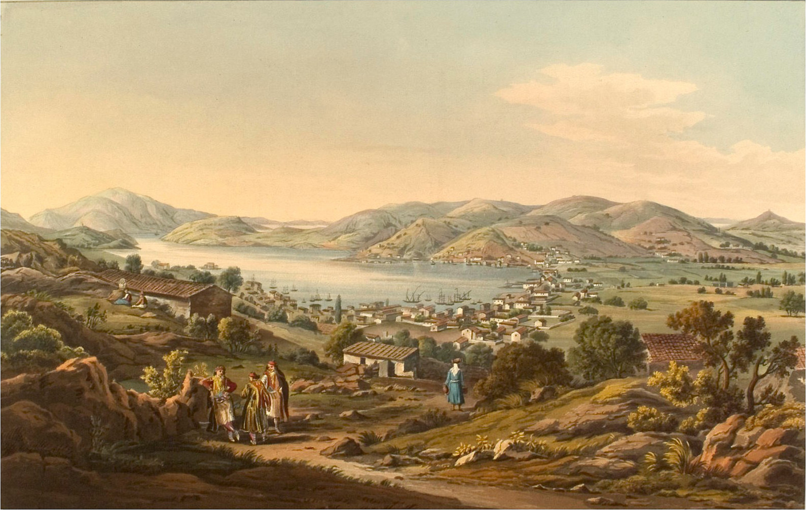 Port Bathy and Capital of Ithaca